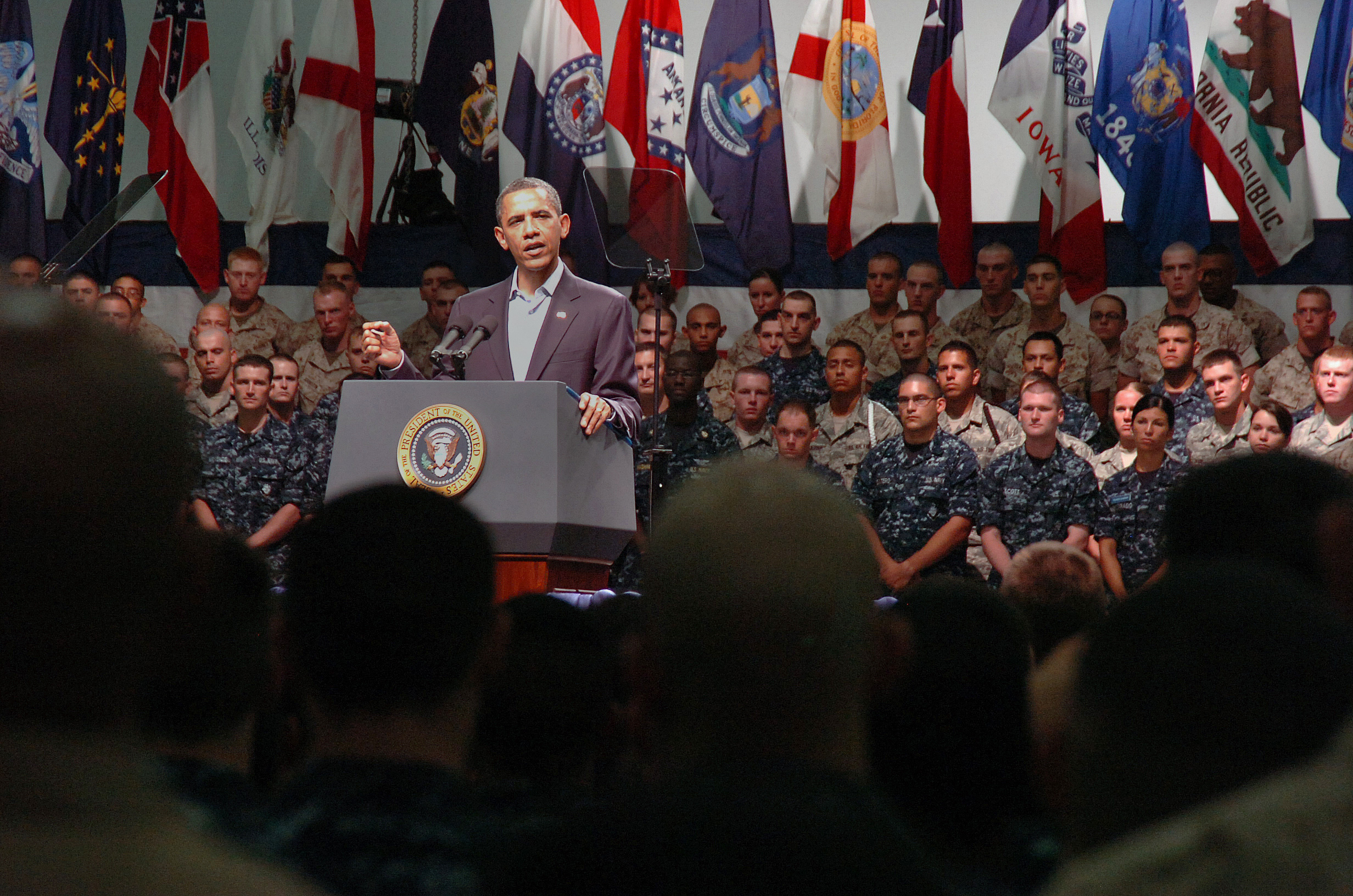 PENSACOLA, Fla. (June 15, 2010) President Barack Obama discusses the efforts being done to contain the oil spill in the Gulf of Mexico with Sailors and Marines at the Naval Air Technical Training Center on board Naval Air Station Pensacola, during the President's tour of the area. More than 2,000 Sailors and Marines filled one of the center's aircraft hangars to hear the address. (U.S. Navy photo by Steve Vanderwerff/Released)